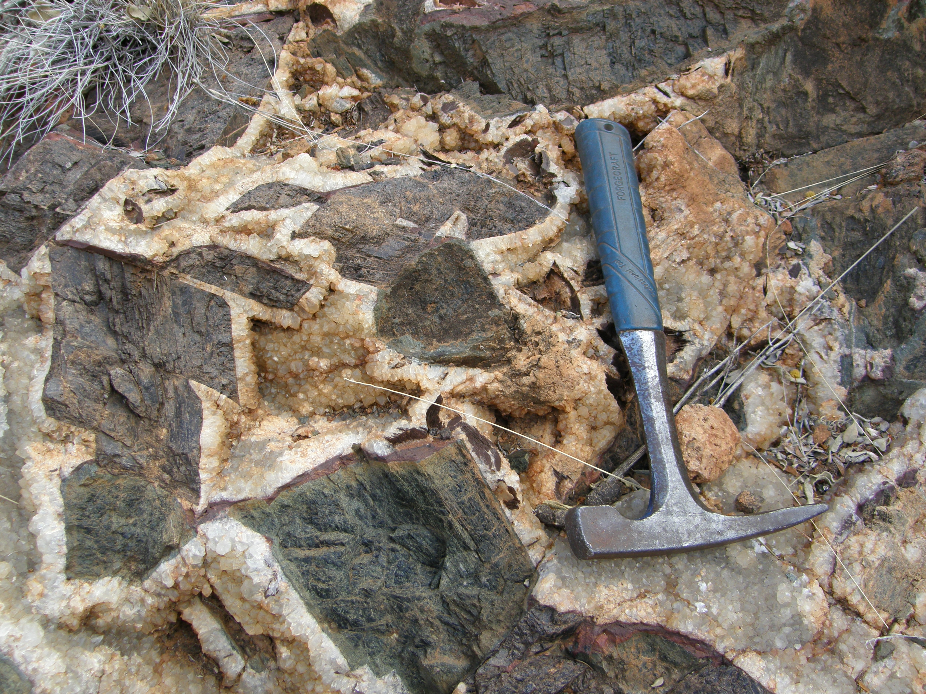 Titanite-Diopside Pegmatite with hydrothermal quartz overprint; Radium Creek, Arkaroola, South Australia